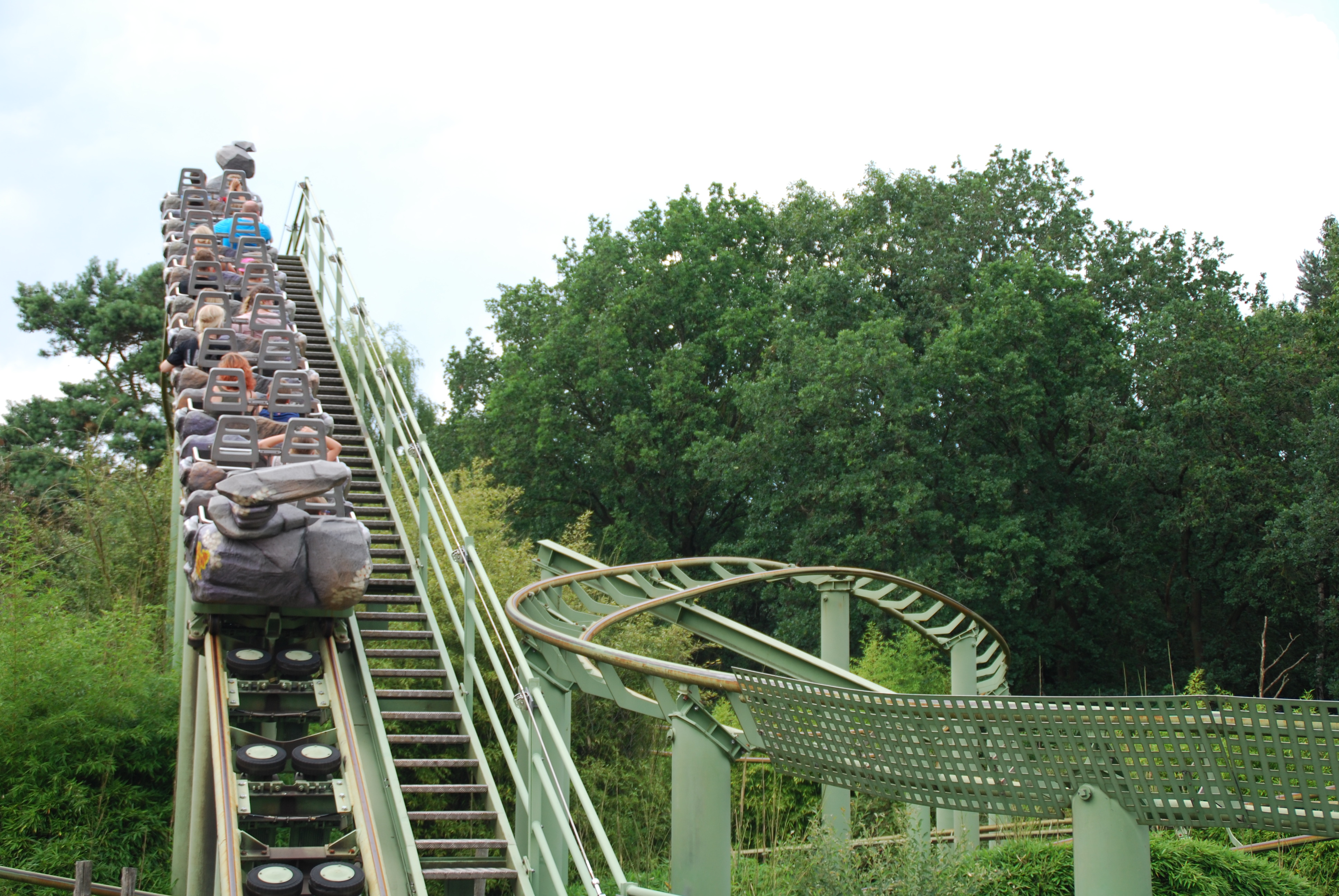 Hellendoorn - Donderstenen